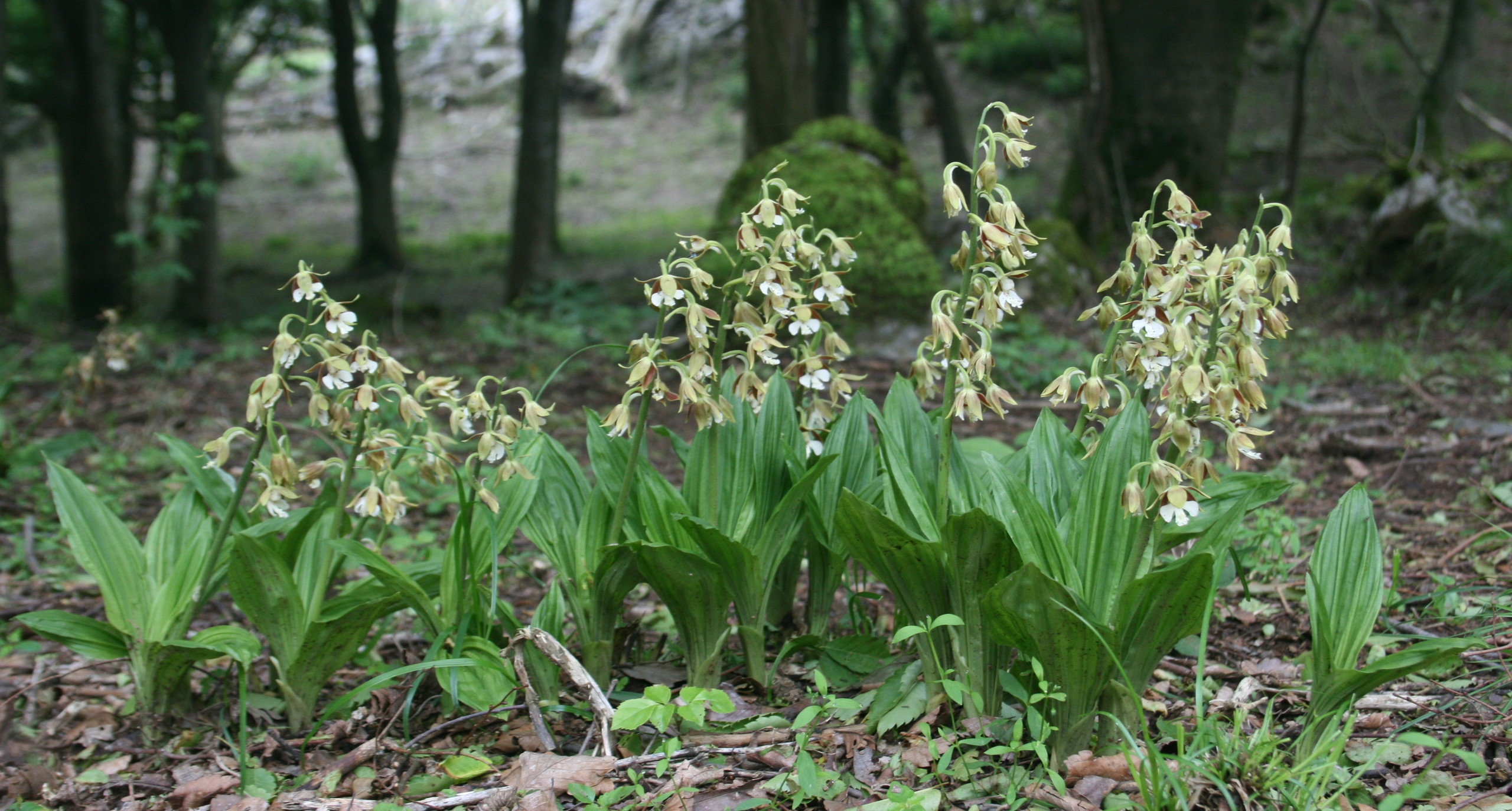 Calanthe discolor group in Mount Ryozen of Suzuka Mountains